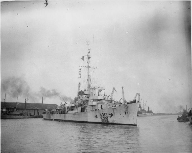 IWM caption : HMS DUCKWORTH, Senior Officer's Ship of the 3rd Escort Group at Belfast flying her Jolly Roger signalling succesful sinking of U-Boats.